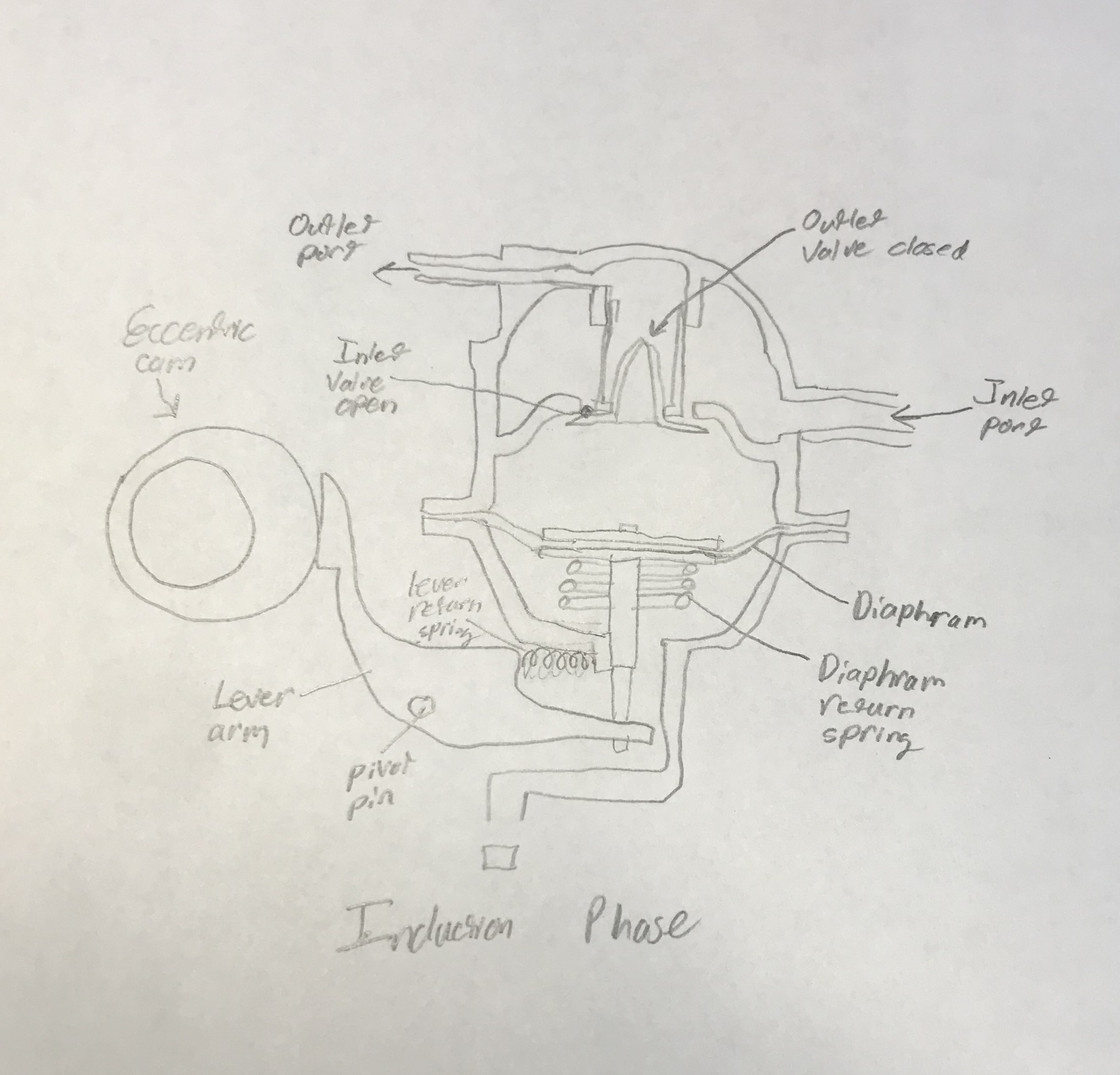 This is a drawing of a basic diaphragm pump and most of its components.